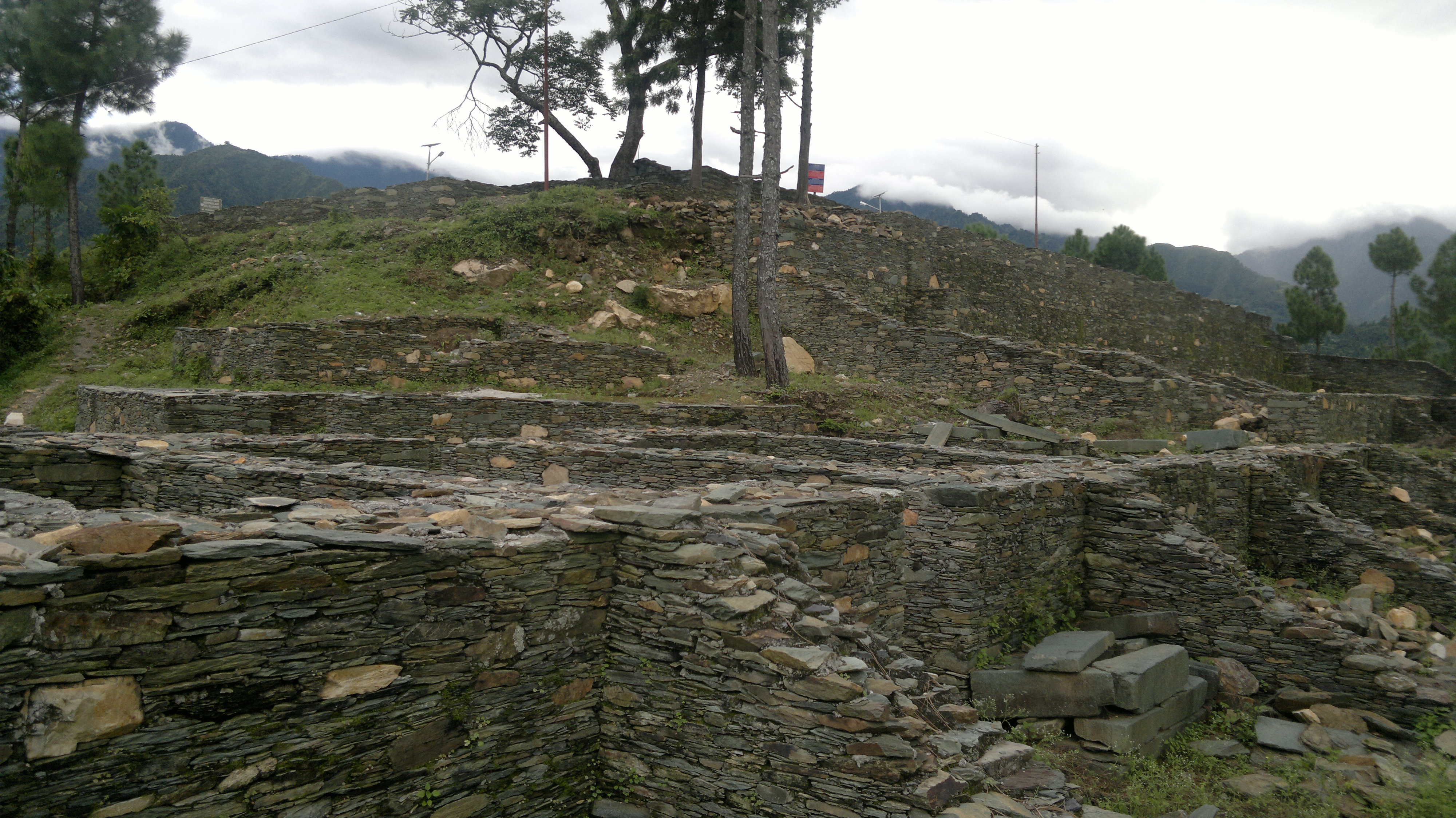 CHANDPUR - The seat of power of the rulers in Garhwal, at the top of a hill,....now in ruins.